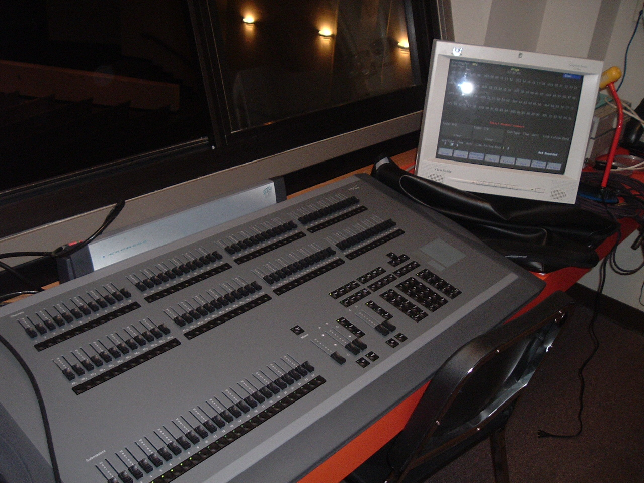 Photo of a light board by Electronic Theatre Controls by User:KeepOnTruckin This is a photo of an ETC Express 48/96. The 48/96 can be used in one scene with 96 faders or as a two-scene preset with 48 faders per scene. It also has 24 submasters regardless of what scene setting you're in. --69.0.10.104 00:27, 14 October 2006 (UTC)